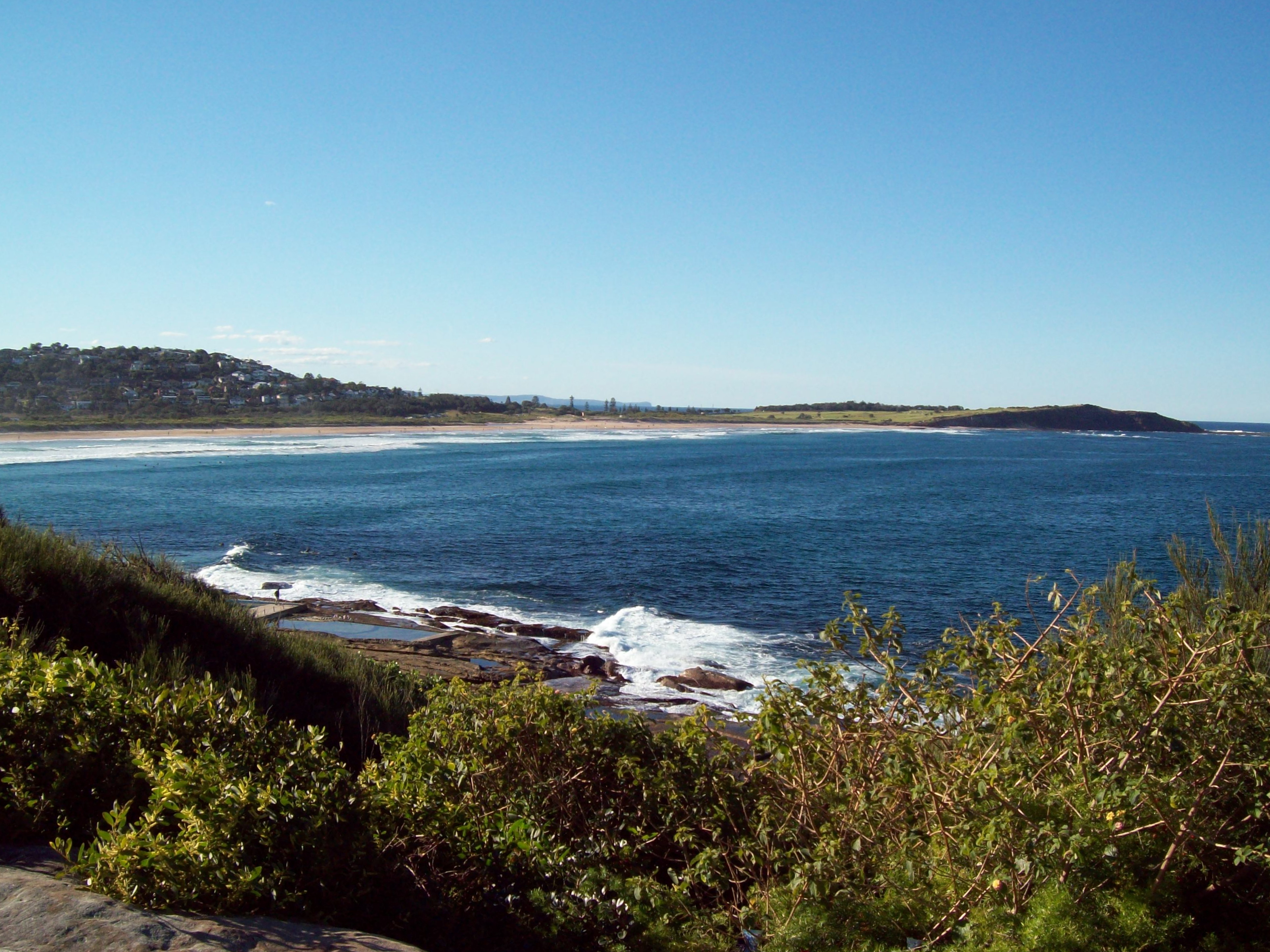 The view of Dee Why and Long Reef Beach from the Bicentennial Walk on the cliffs north of Dee Why Head.